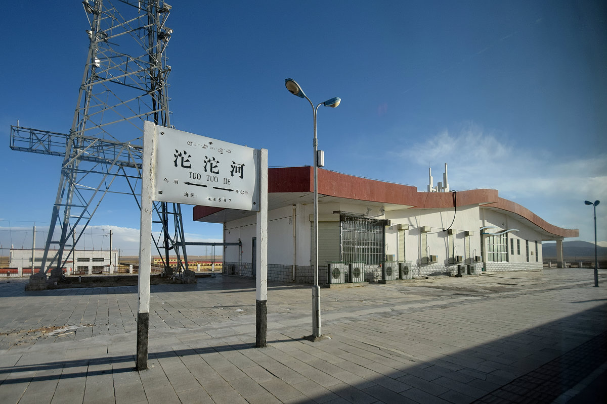 Tuotuohe Railway Station, Qinghai-Tibet Railway (altitude 4547m)